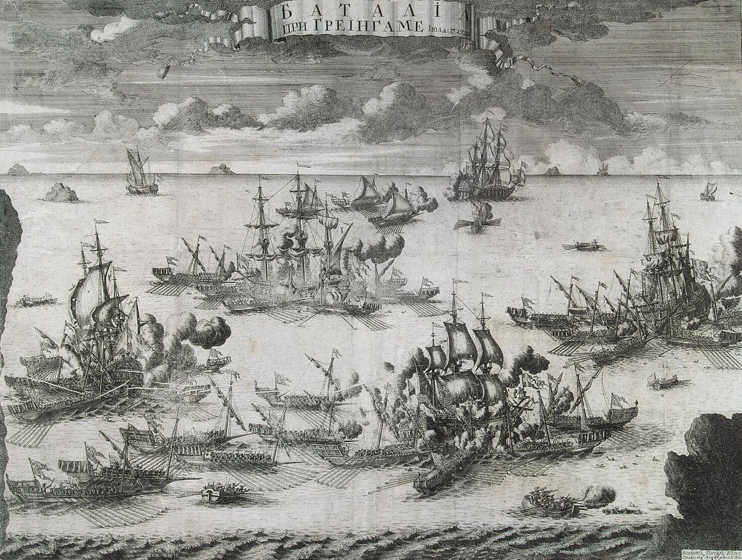 The Battle of Grengam, July 27, 1720. Etching, chisel. State Hermitage Museum, St. Petersburg, Russia.